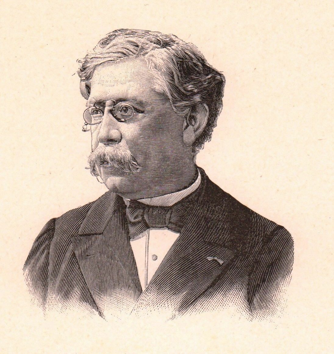 French journalist, actor, playwright and songwriter Paul Burani (1845-1901)